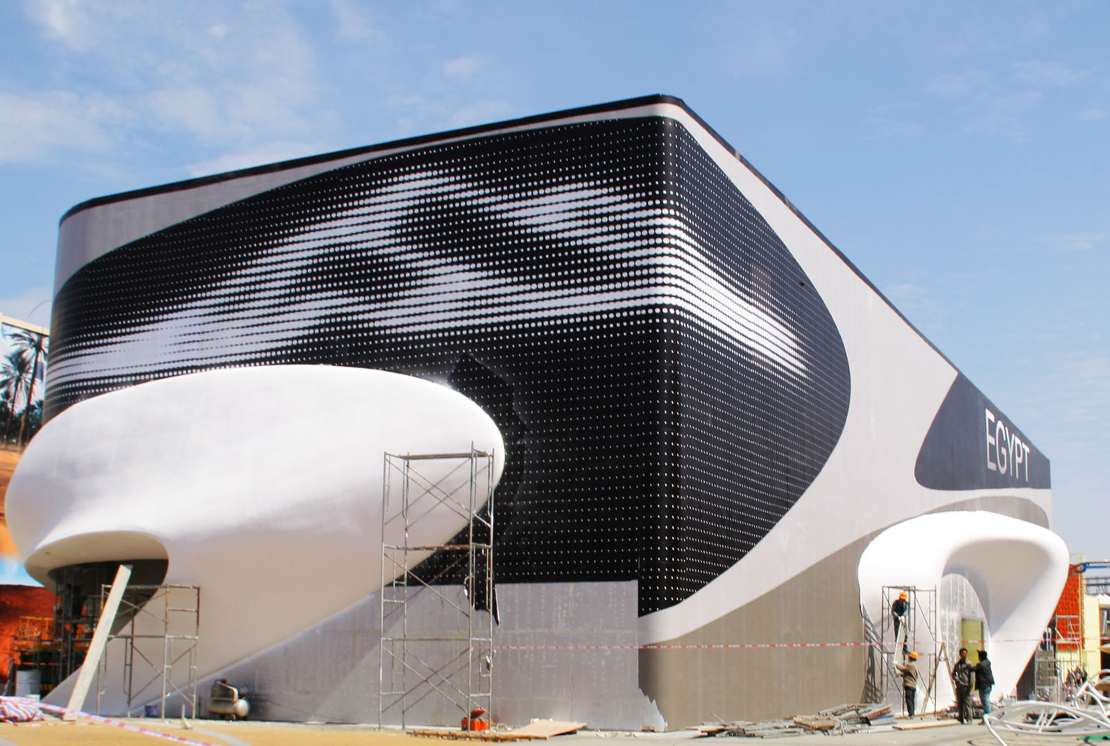 Egypt Pavilion of Expo 2010